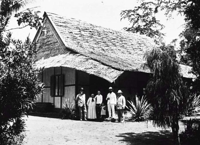 A house of the Protestant Mission at Buli